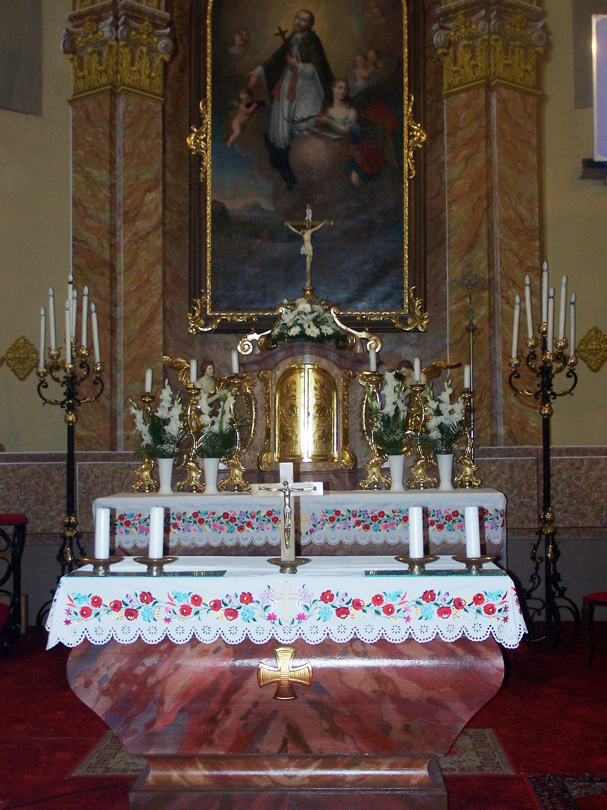 Catholic church of Rákoscsaba, Budapest (Hungary)